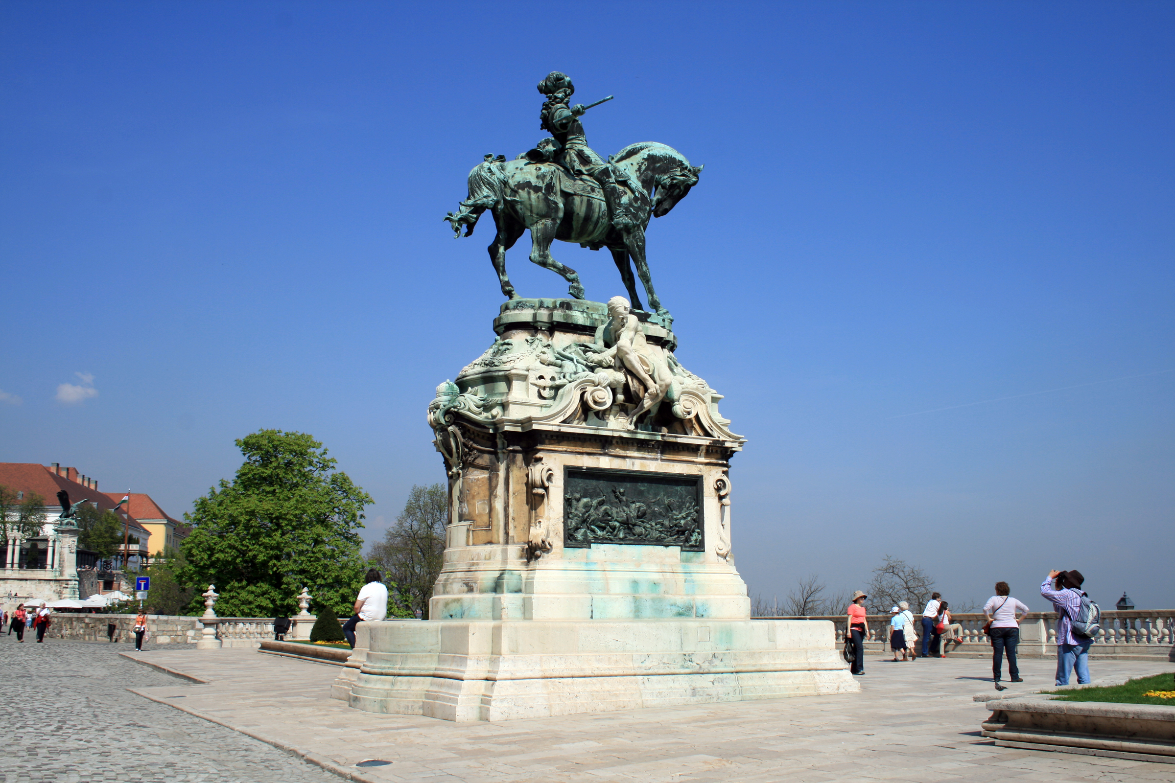 Prince Eugen of Savoy's monument at the Castle of Buda, Budapest, Hungary